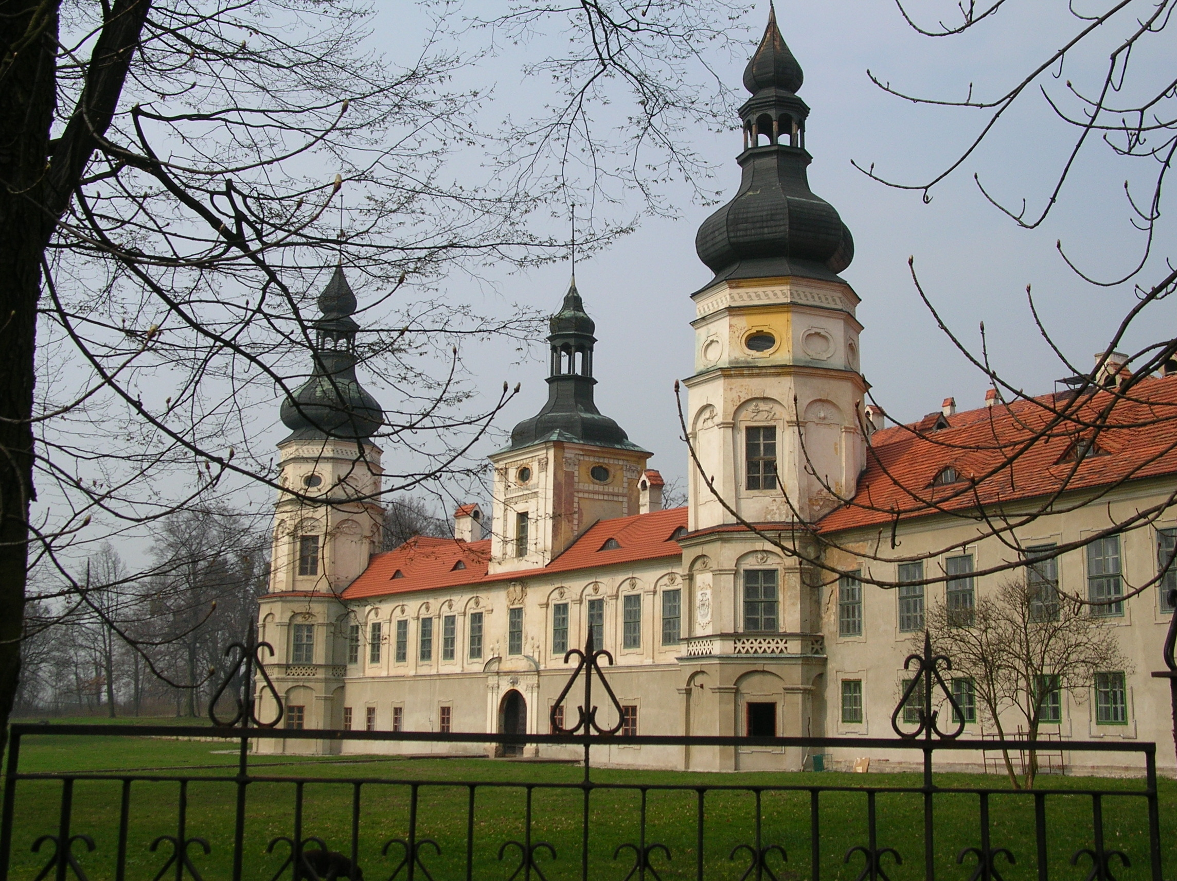 Palace in Żyrowa (Opole Silesia)